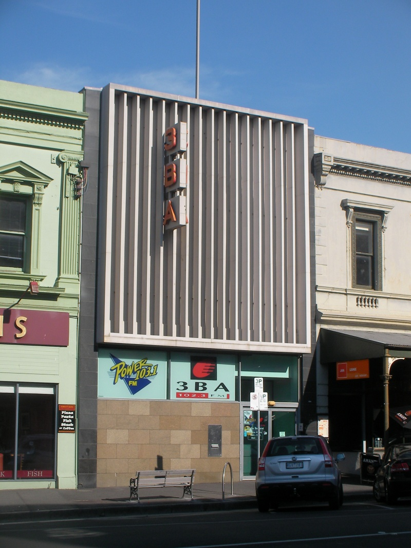 Radio House (3BA) Ballarat, Victoria Australia